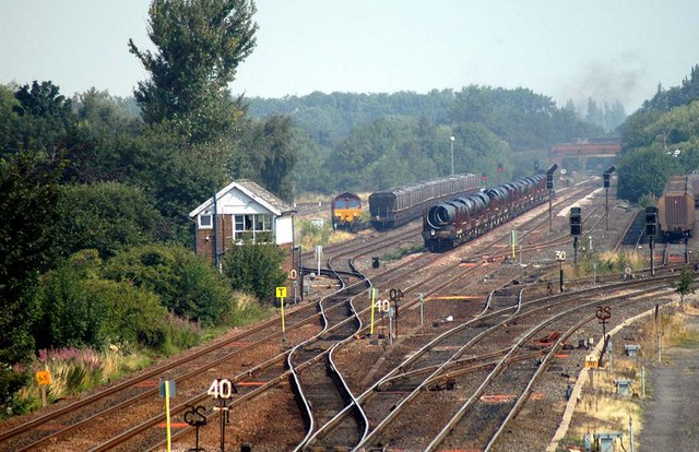 South Milford Junction